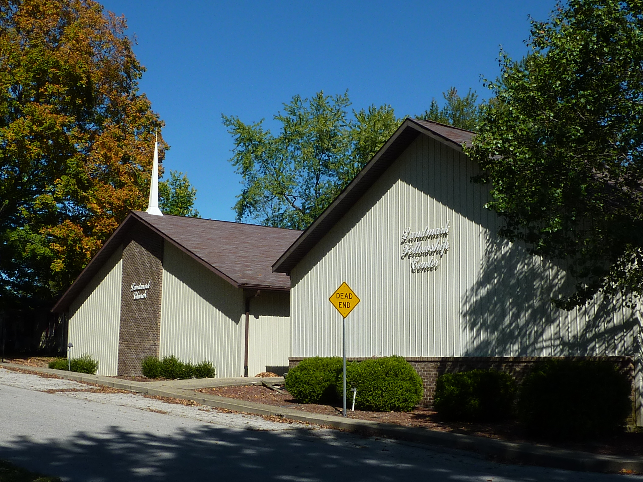 Landmark Church (United Pentecostal), located at 2429 S. Ford Avenue on the southwestern side of Bloomington, Indiana, United States.